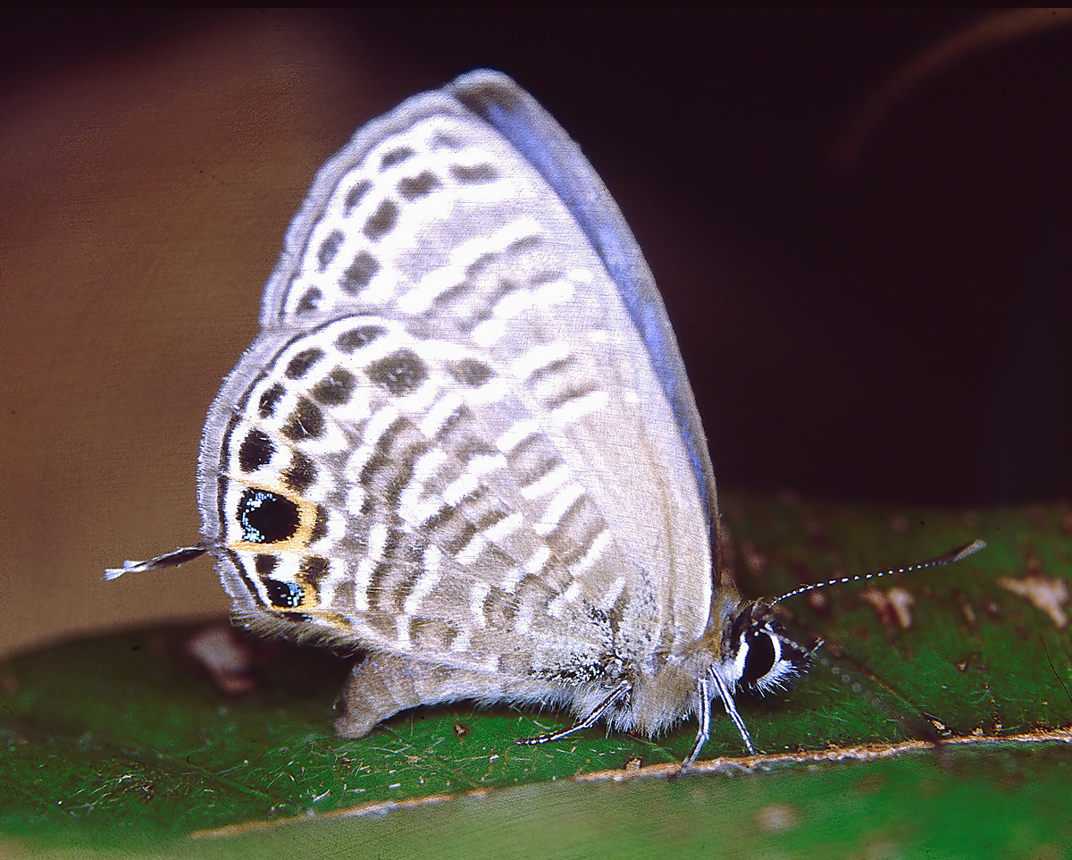 Nacaduba kurava, male, Sulawesi Utara, Alan Cassidy photo